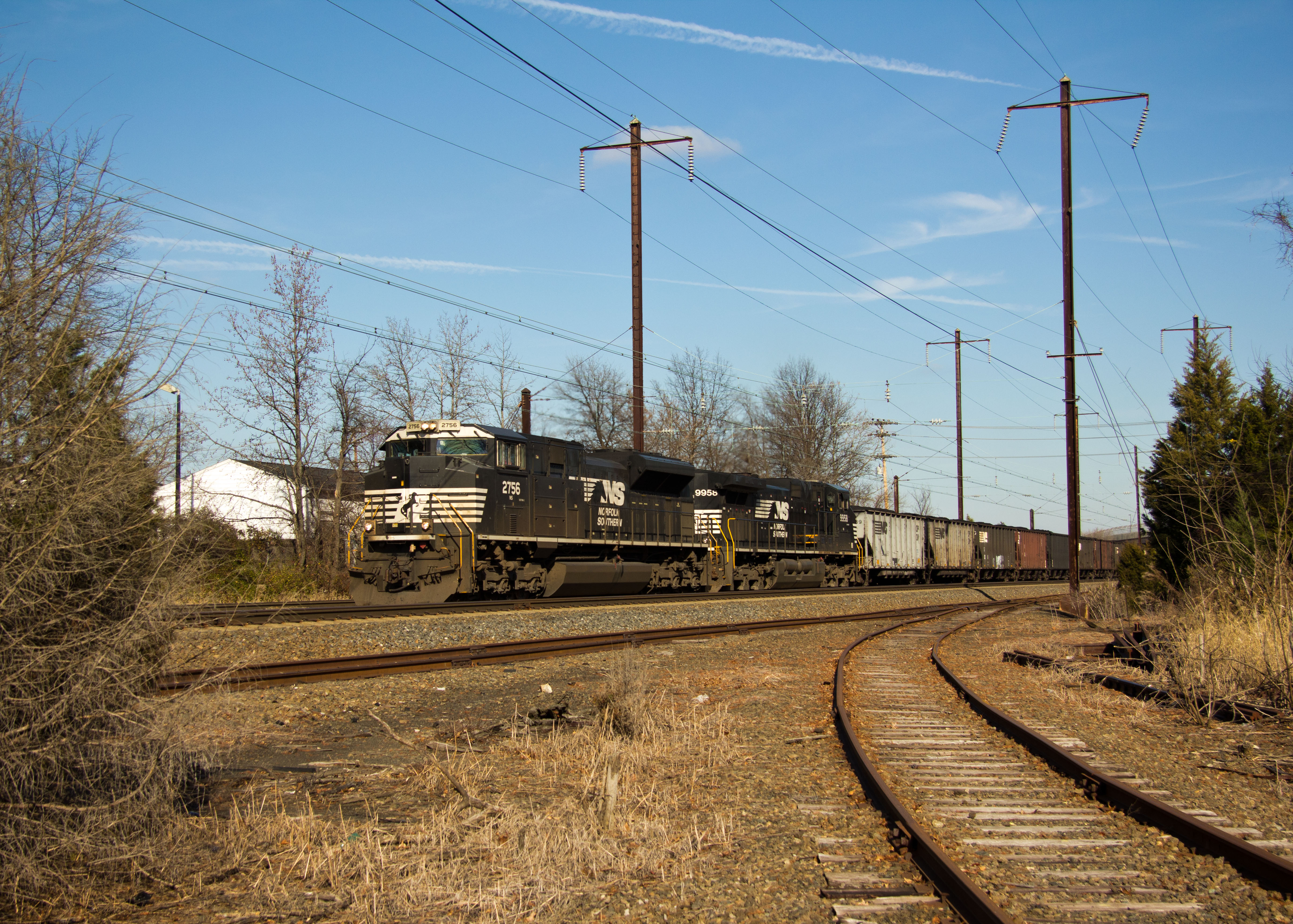 An uncommon site during daylight hours is a NS coal train headed south on the Northeast Corridor. The train is on its way to a power plant in Baltimore.